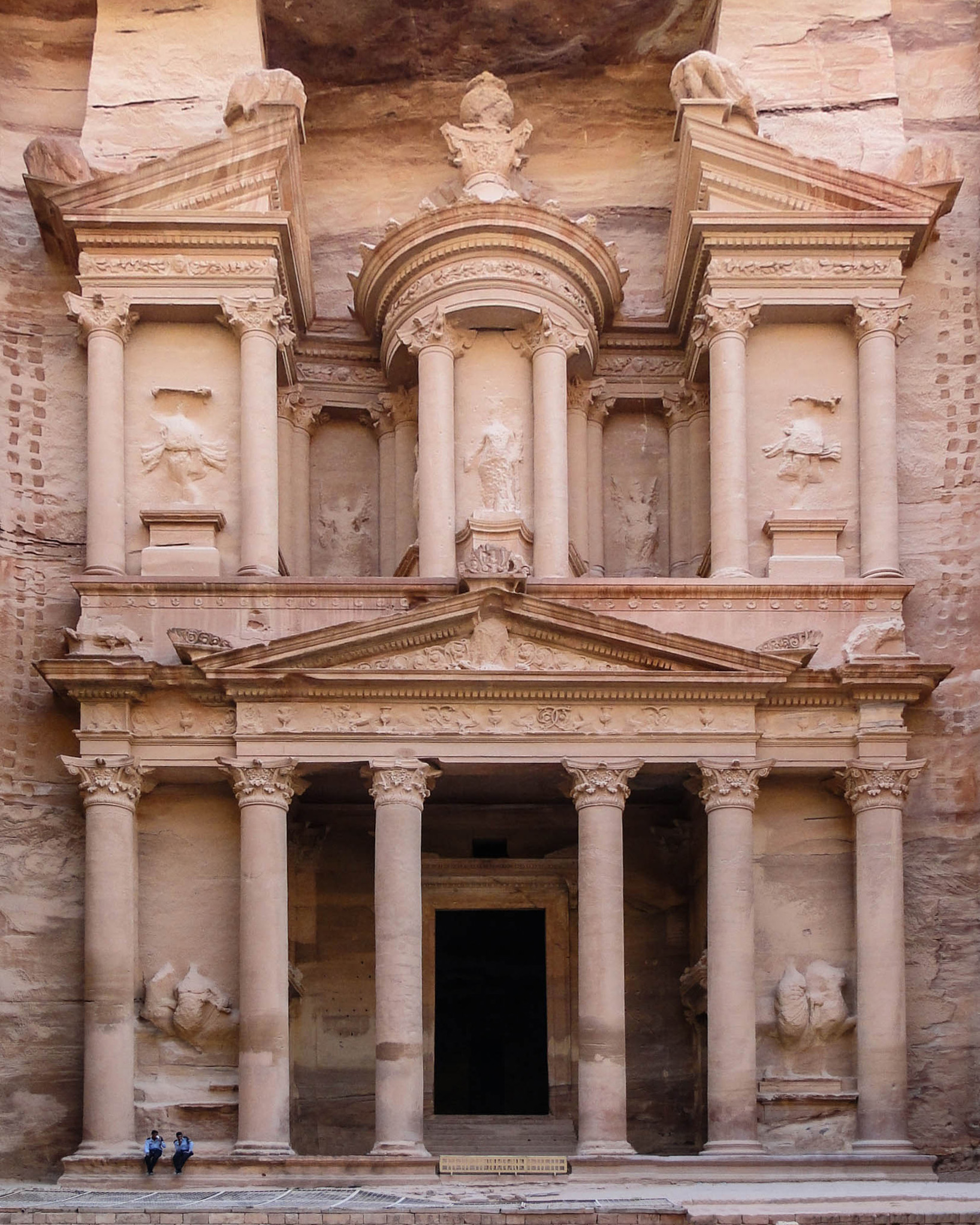 Facade of Al Khazneh, Petra, Jordan